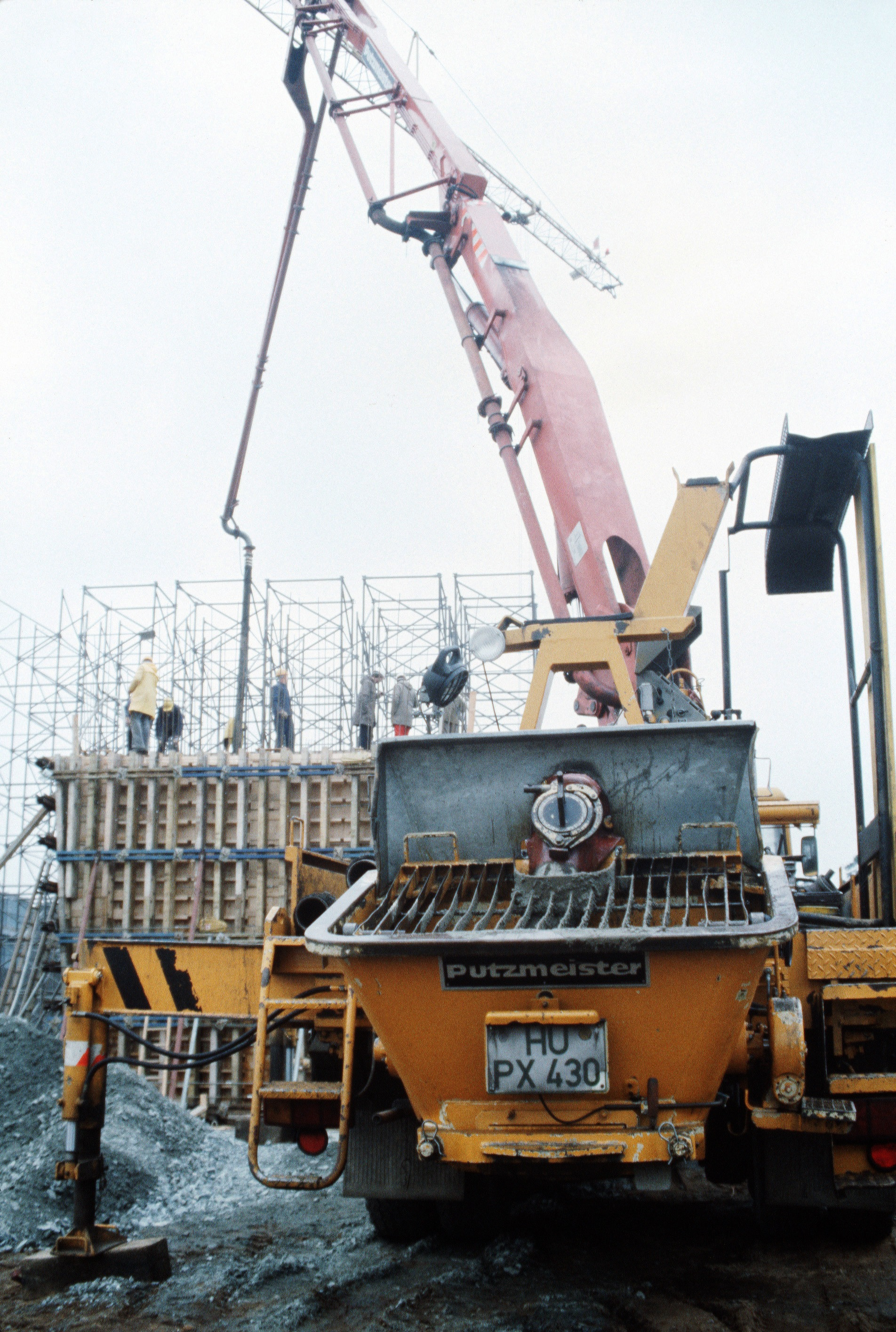 A Putzmeister concrete pump in Germany in 1985. A view of the Berlin Airlift Memorial under construction in Frankfurt Main Airport (Former Rhein-Main Airbase)